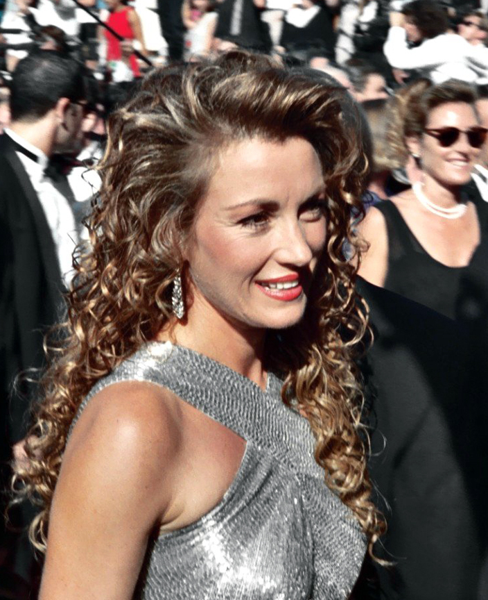 Jane Seymour at the Emmy Awards, September 1, 1994, original photo by Alan Light (cropped)